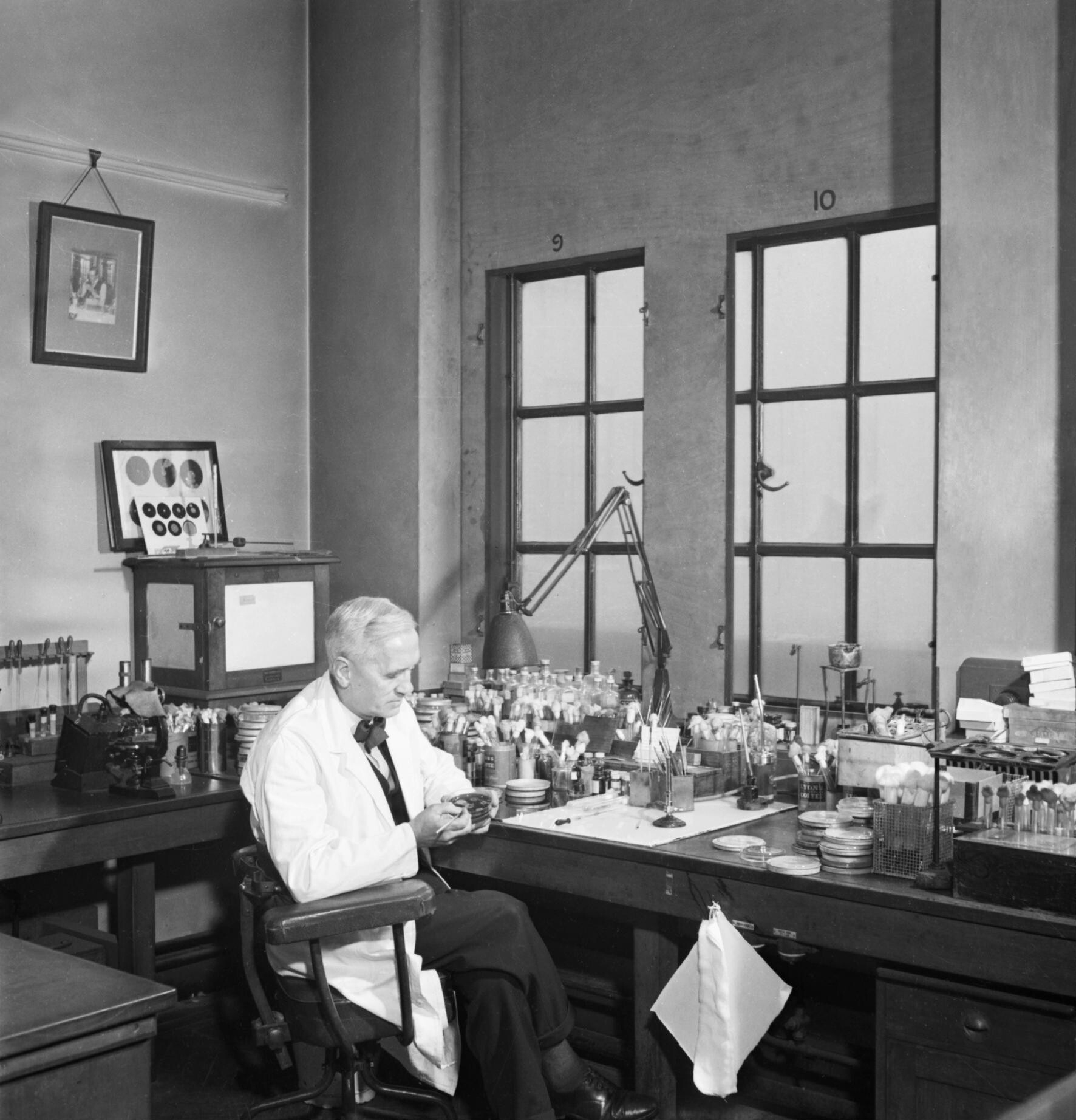 Professor Alexander Fleming at work in his laboratory at St Mary's Hospital, London, during the Second World War. Professor Alexander Fleming at work in his laboratory at St Mary's Hospital, London. Fourteen years after his discovery of penicillin, he is still experimenting to investigate the effect of the drug on bacteria.